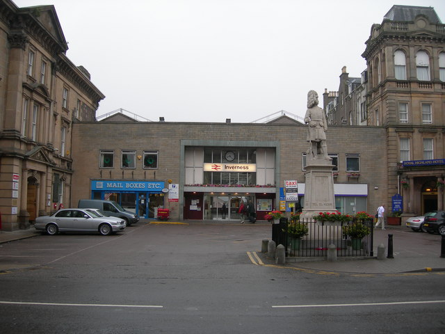 Inverness Station